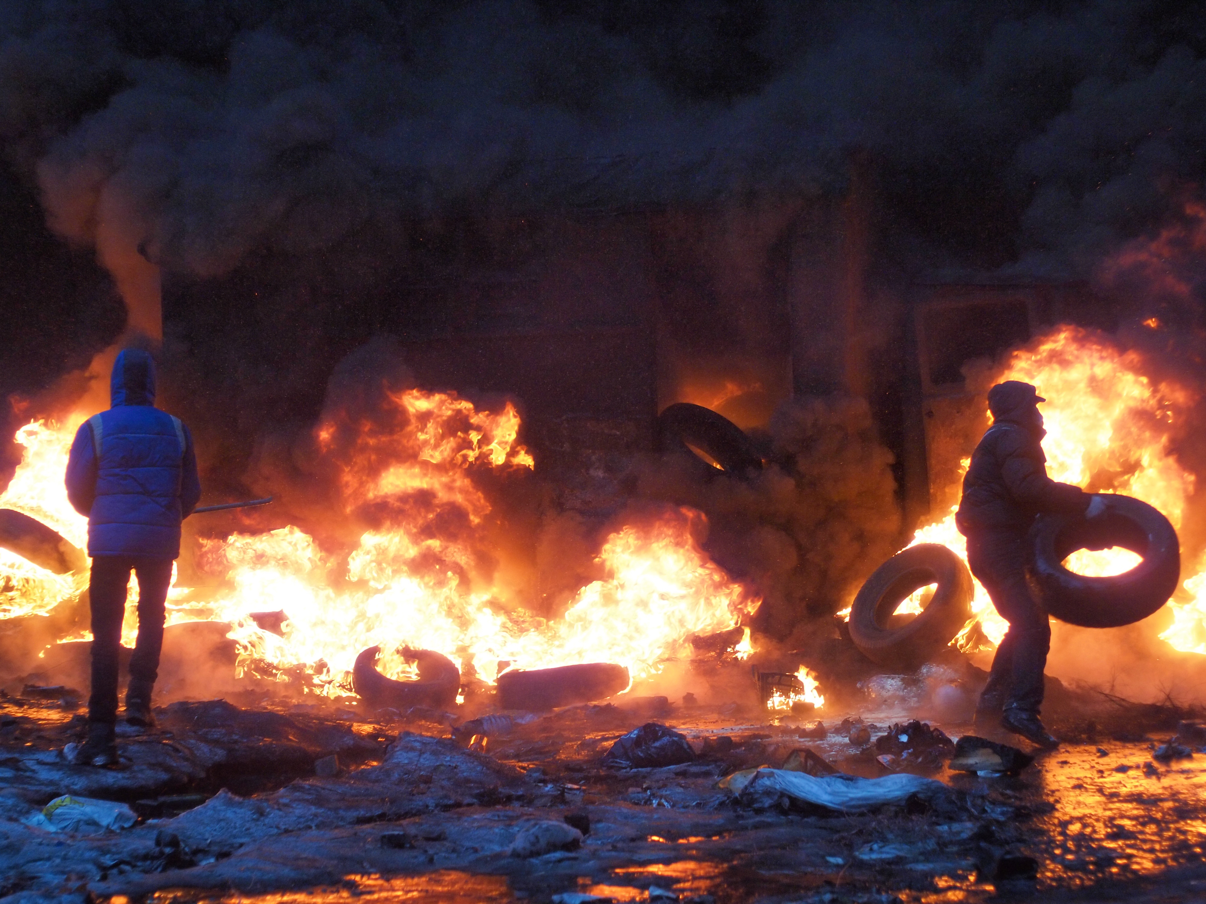 Protests on Hrushevskyi street, Kiev, 22 January 2014